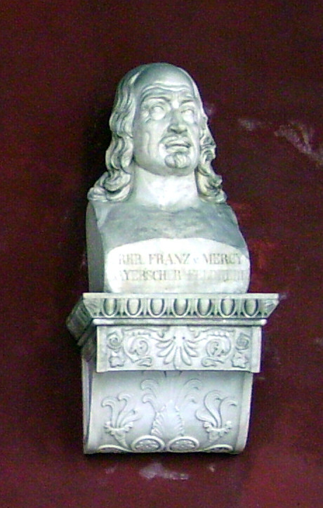 Bust of Frhr. Franz v. Mercy at Ruhmeshalle ("Hall of fame"), München, Germany. Picture taken by myself: Dominik Hundhammer, München, 27 March 2006.